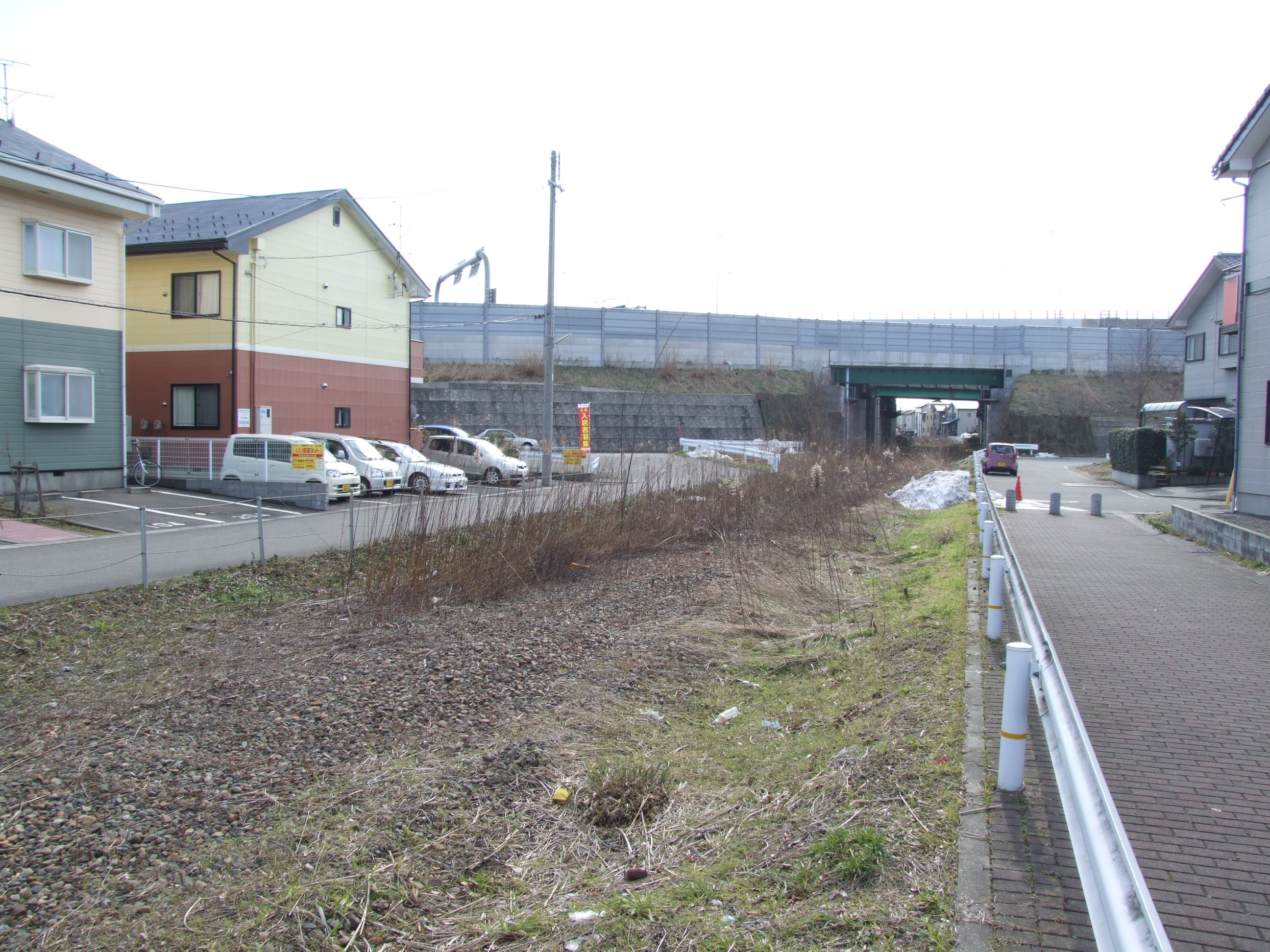 Site of Tokimeki Station, Niigata Kotsu Railway